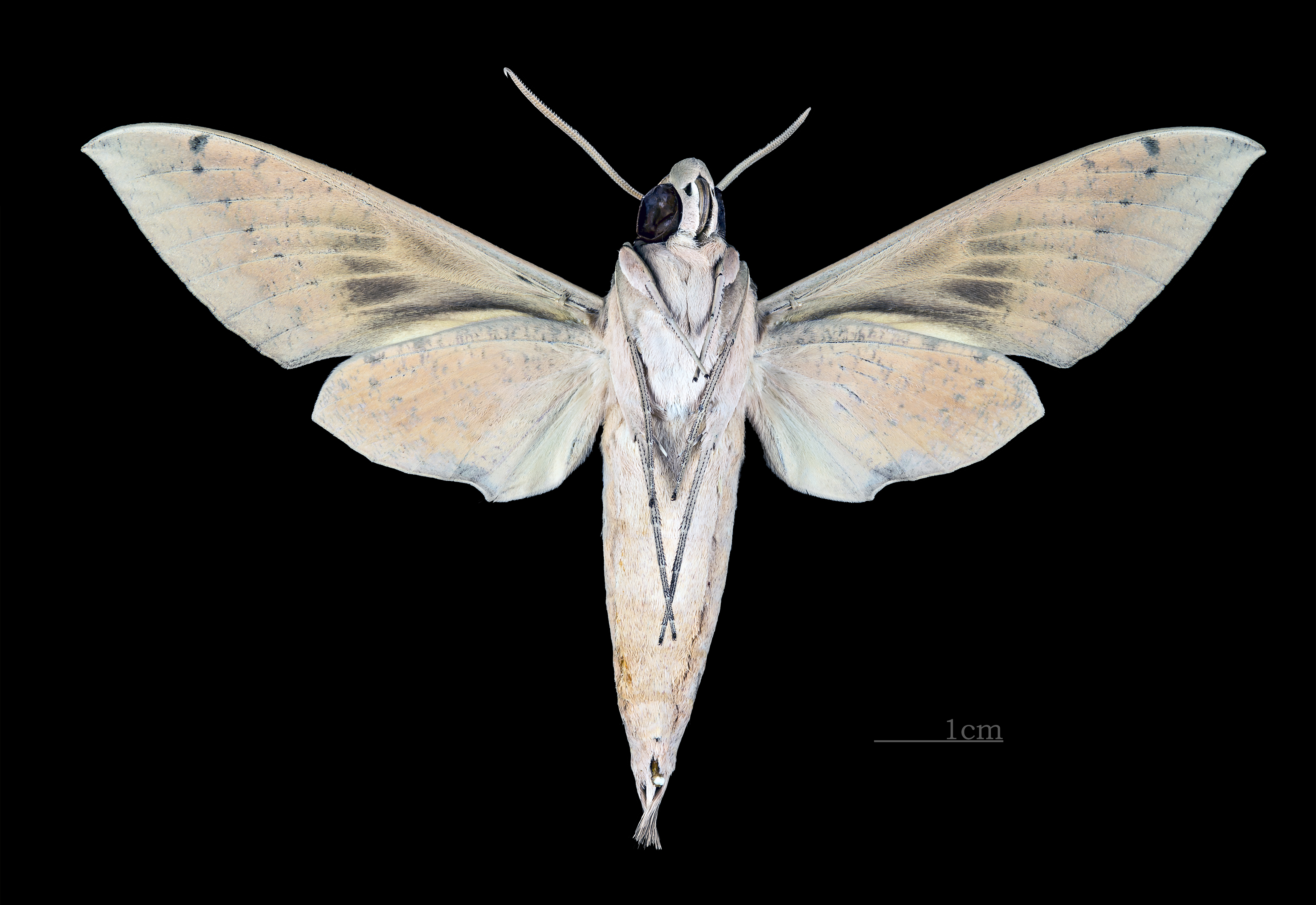 Theretra gnoma - △ Ventral side Collection of the Mathematician Laurent Schwartz